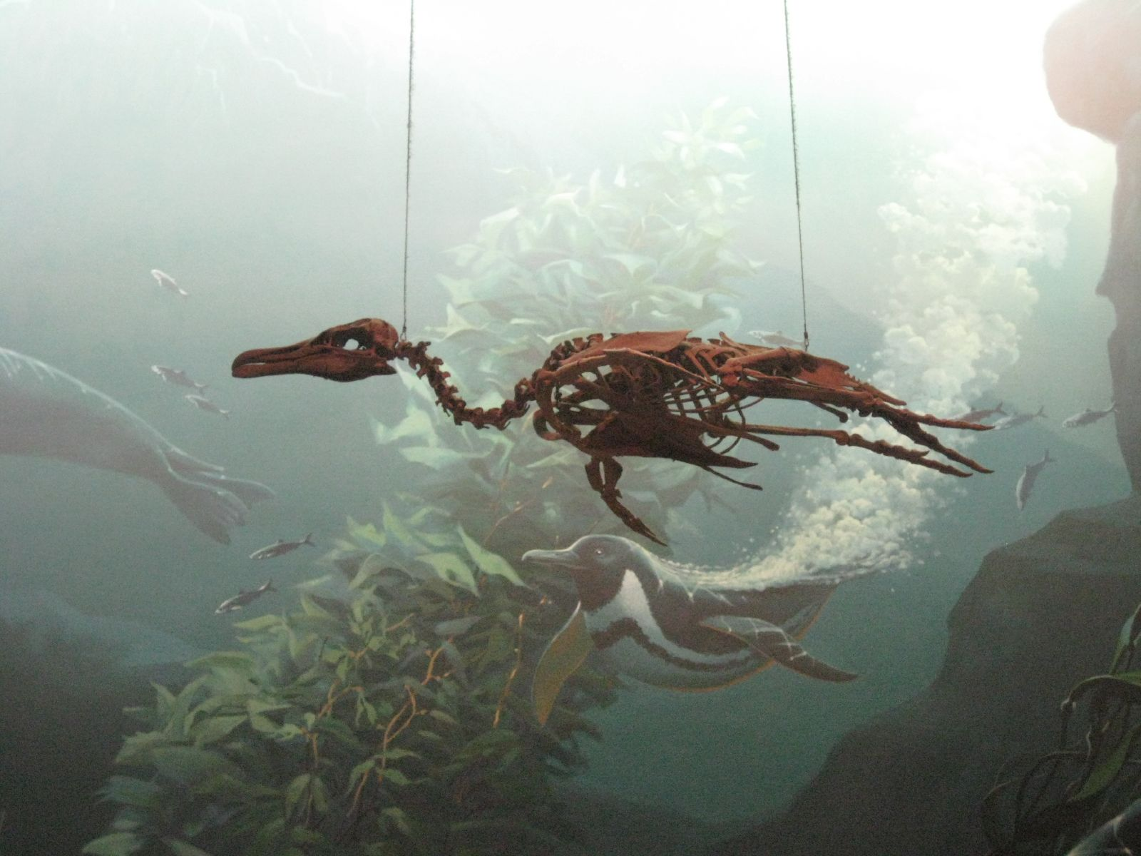 10 - 5 million years ago Late Miocene